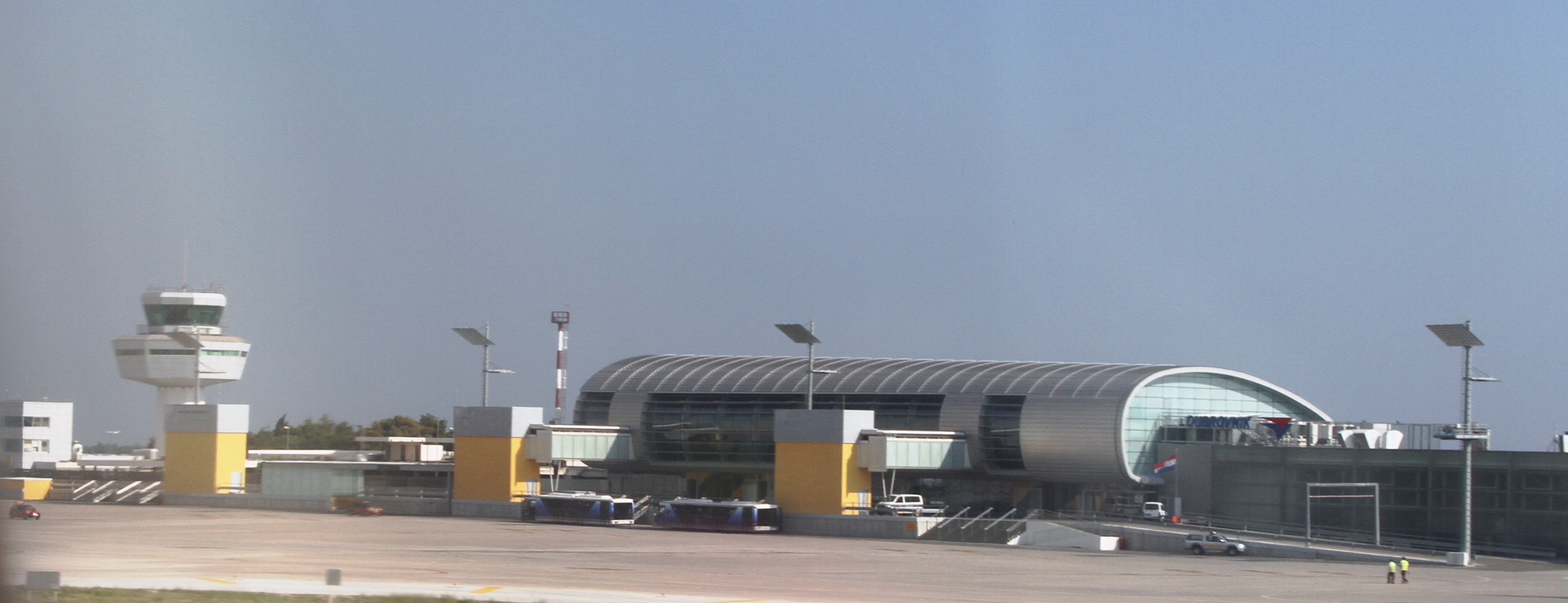 Image from the municipality of Konavle, southeastern onavle. This is around Dubrovnik Airport in Konavle.